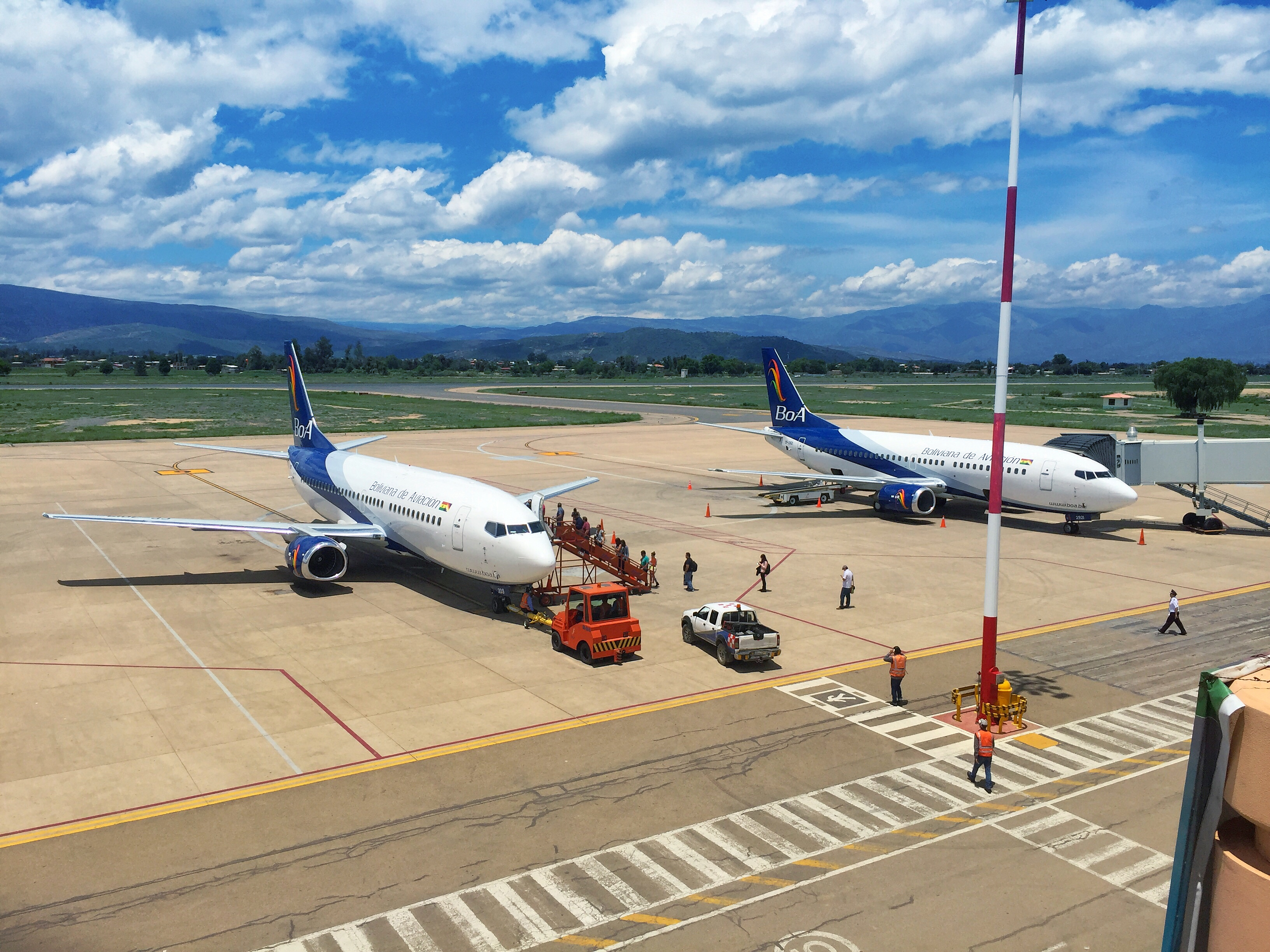 Boliviana de Aviación Boeing 737-300s aircraft parked at Cochabamba's Jorge Wilstermann International Airport.